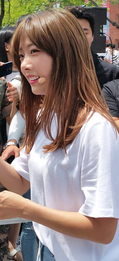 DIA EUNICE